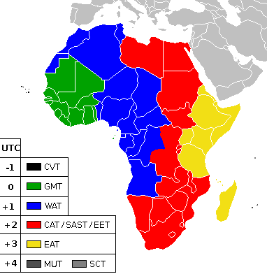 A map showing the different time zones in the African continent.